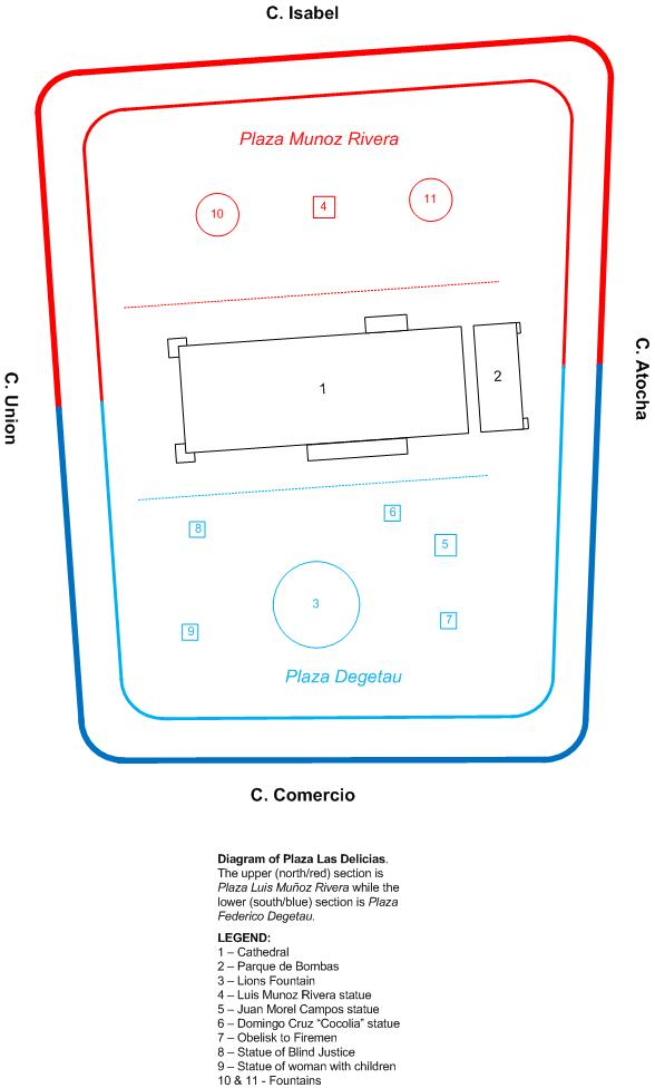 Schematic site plan of Plaza Las Delicias in Ponce, southern Puerto Rico. Showing all important landmarks.